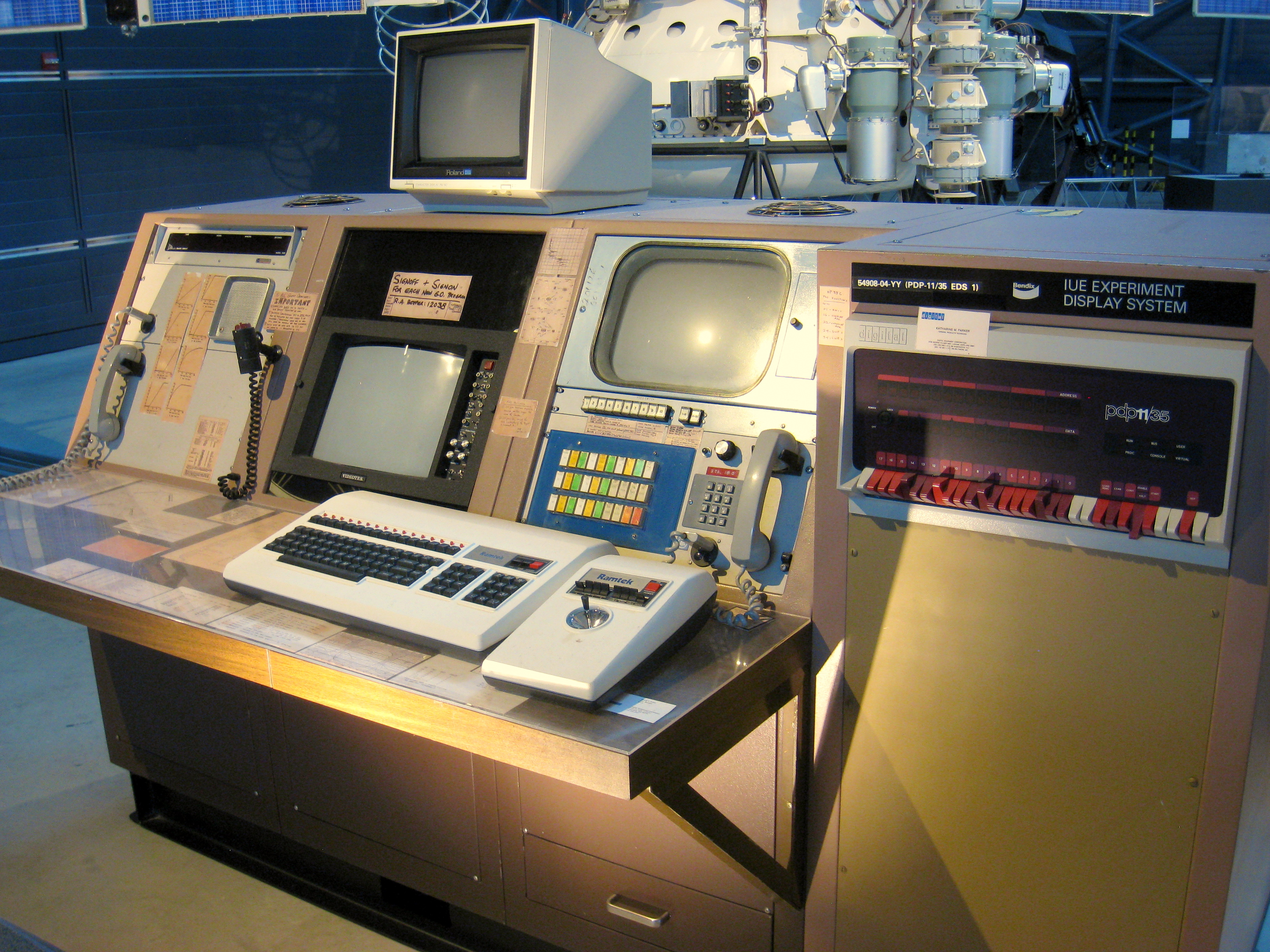 International Ultraviolet Explorer satellite control, with PDP 11/35 minicomputer - Udvar-Hazy Center, Dulles International Airport, Chantilly, Virginia, USA.